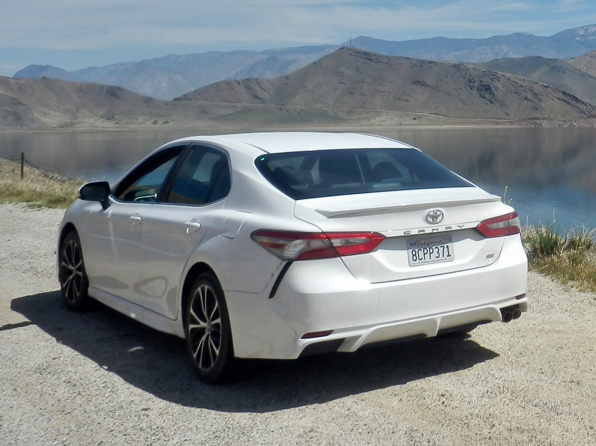 Toyota Camry SE at Lake Isabella (California)